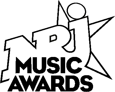 Logo of the french NRJ Music Awards